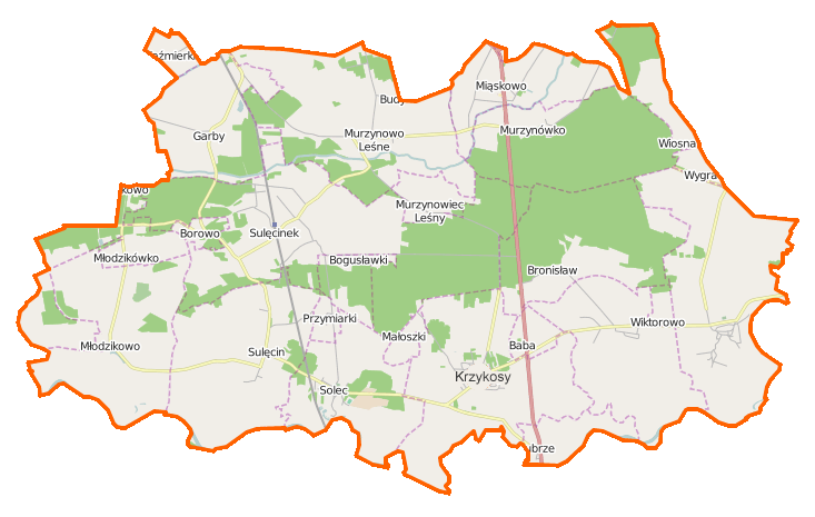 Map of Gmina Krzykosy, Poland This map of Krzykosy (gmina) was created from OpenStreetMap project data, collected by the community. This map may be incomplete, and may contain errors. Don't rely solely on it for navigation. Border coordinates52.181017.2242←↕→17.476052.0830